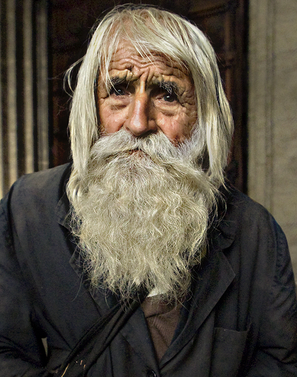 Dobri Dobrev standing in front of Alexander Nevski Cathedral, at age 94